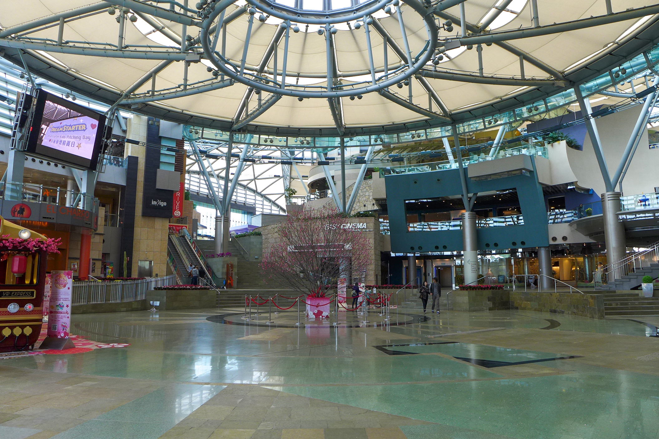 Cyberport The Arcade Atrium